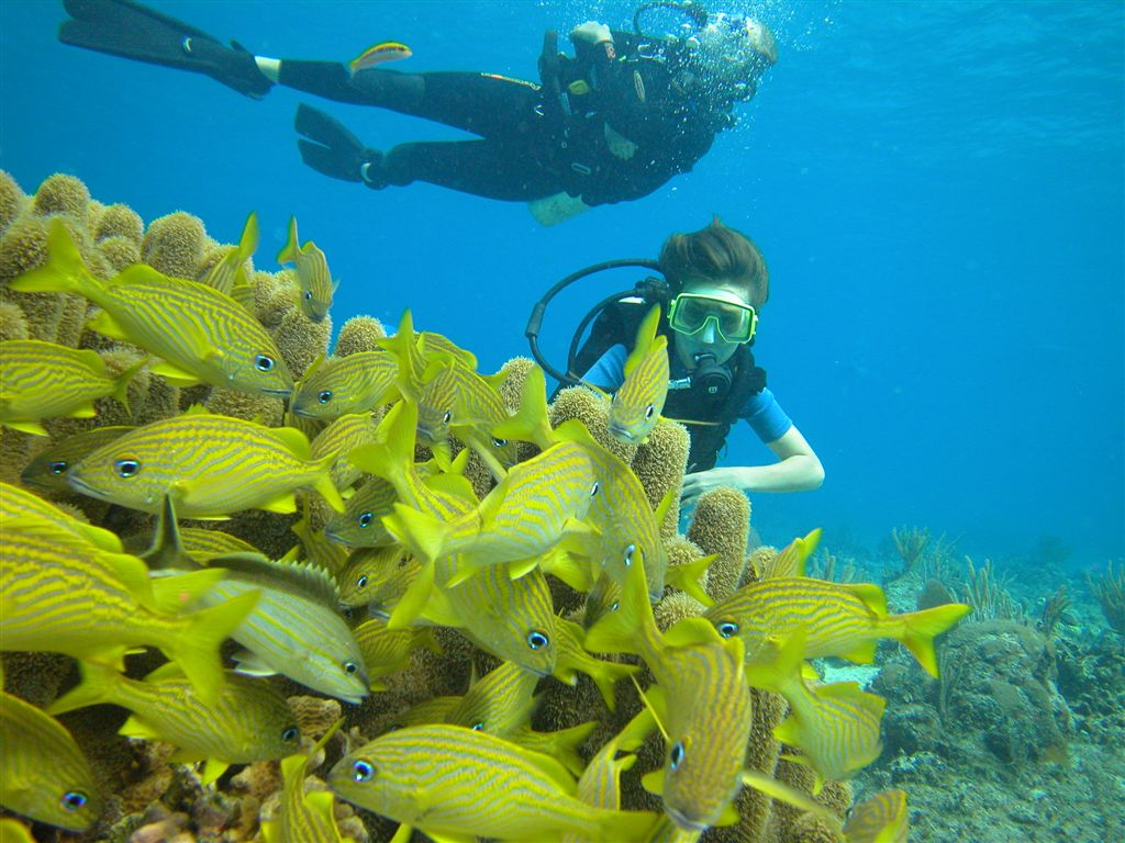 Divers in San Miguel de Cozumel, Mexicoalyosha is certified...